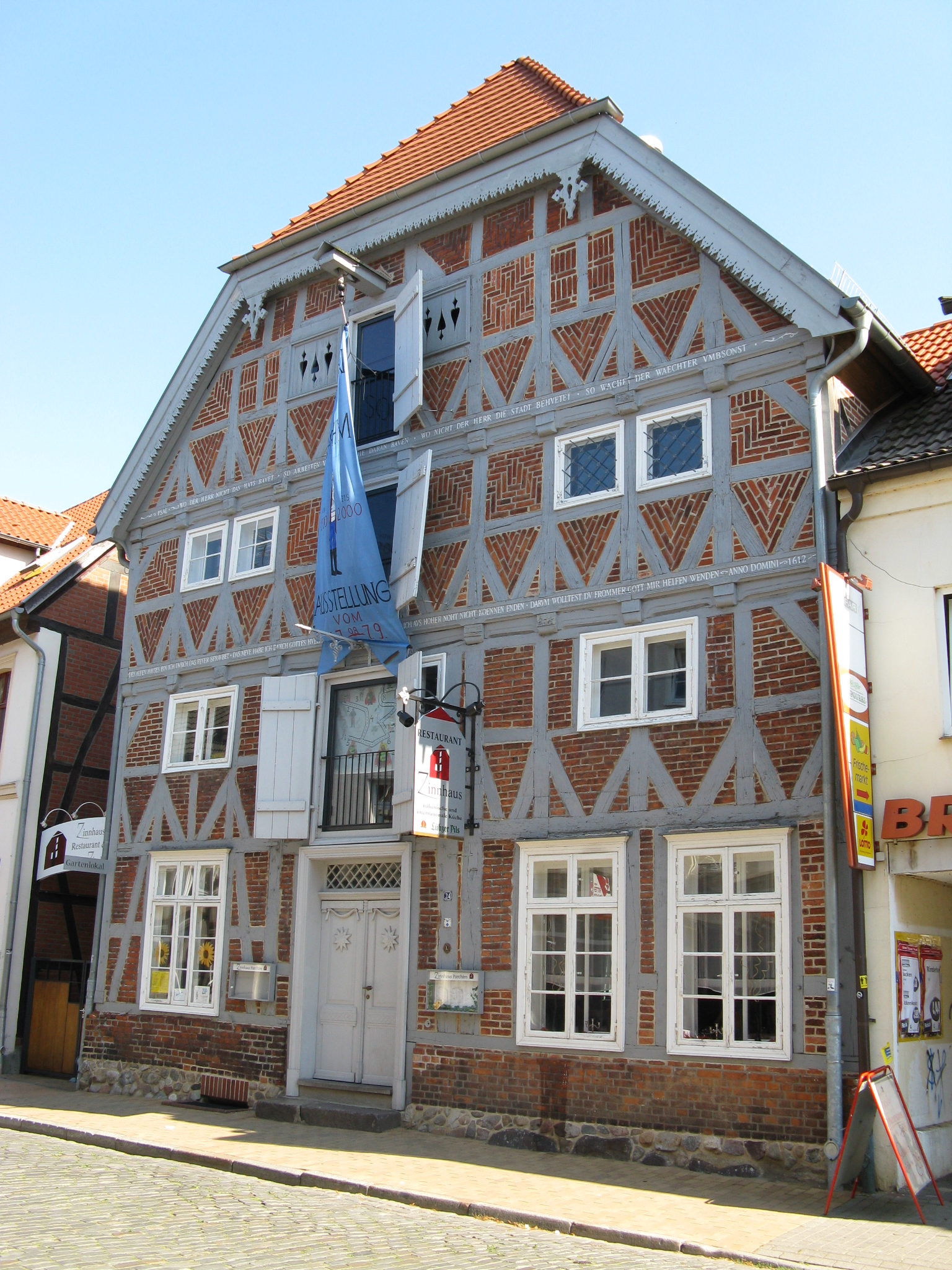 Zinnhaus (engl. tin house) in Parchim, Mecklenburg-Vorpommern, Germany